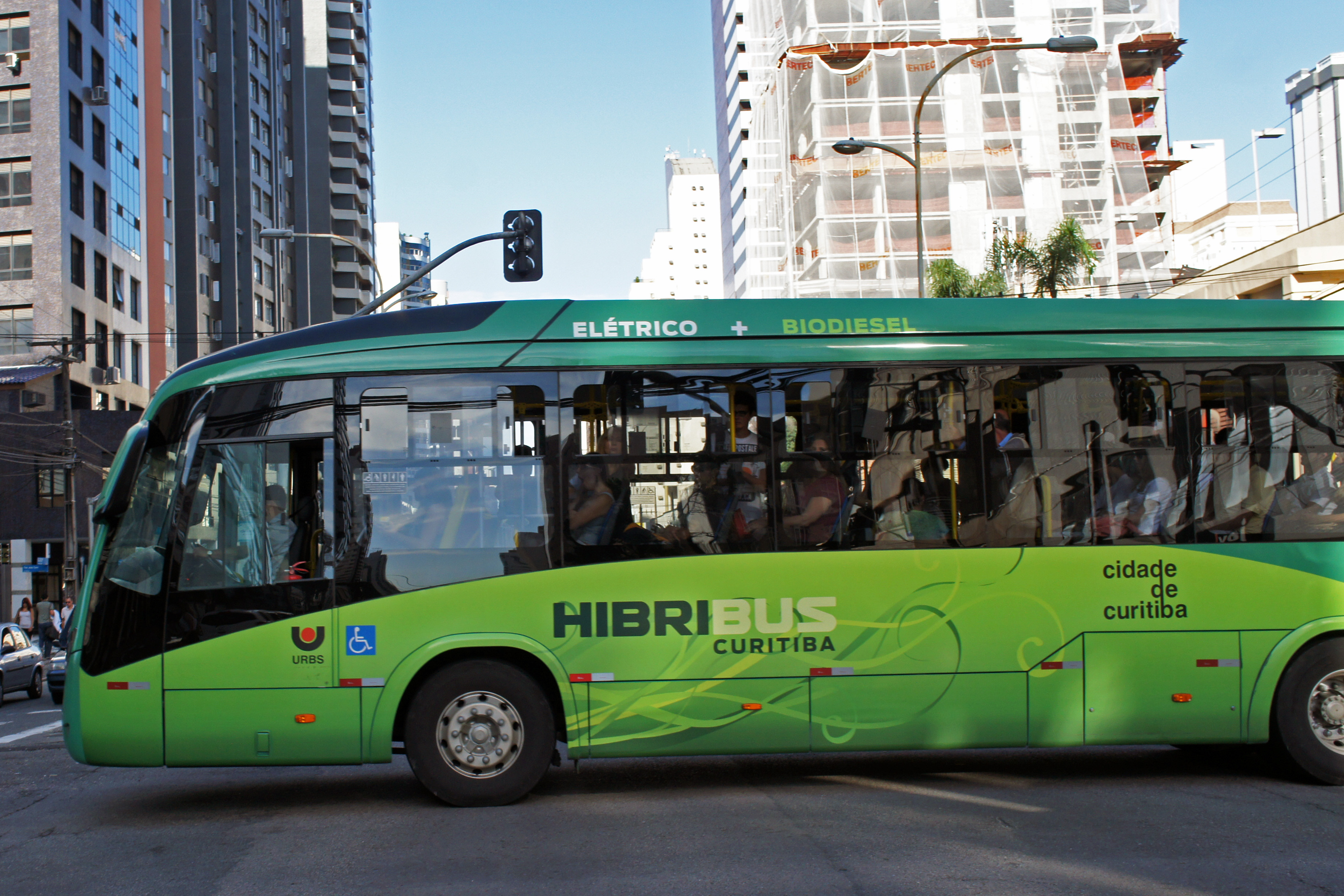 Hybrid biodiesel-electric bus in service for Curitiba's RIT